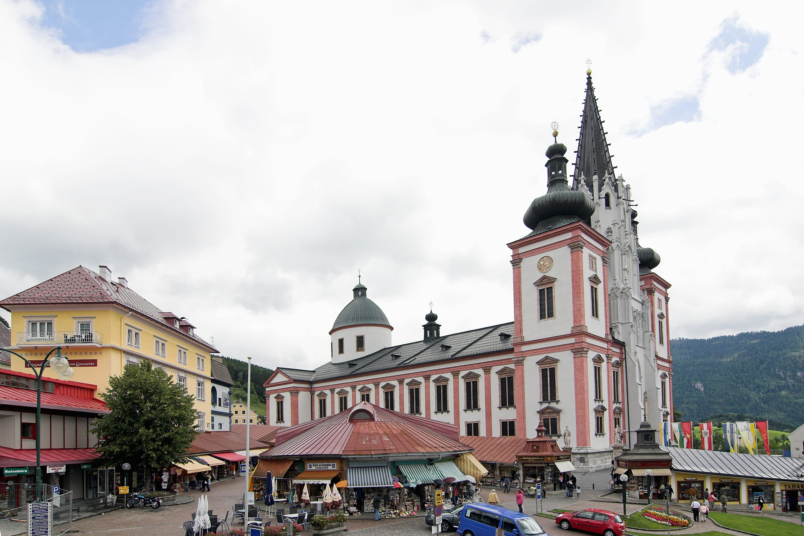 Basilica of Mariazell, view from the north